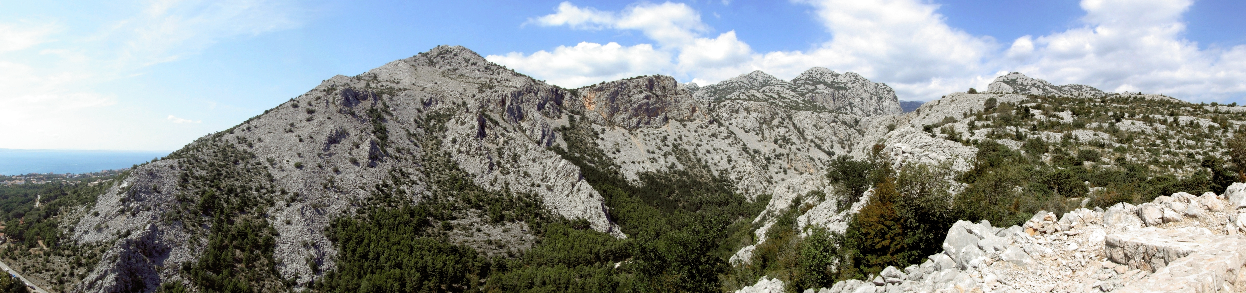 Velika Paklenica canyon - view from Paklarić peak